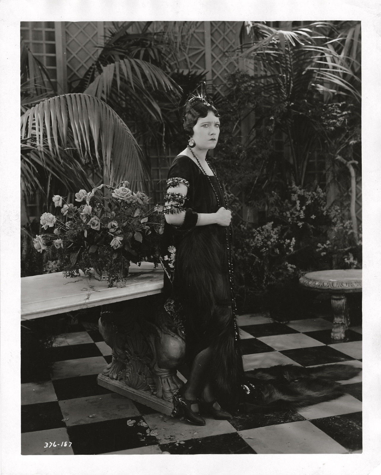 Still from The Great Moment (1921) featuring Gloria Swanson.